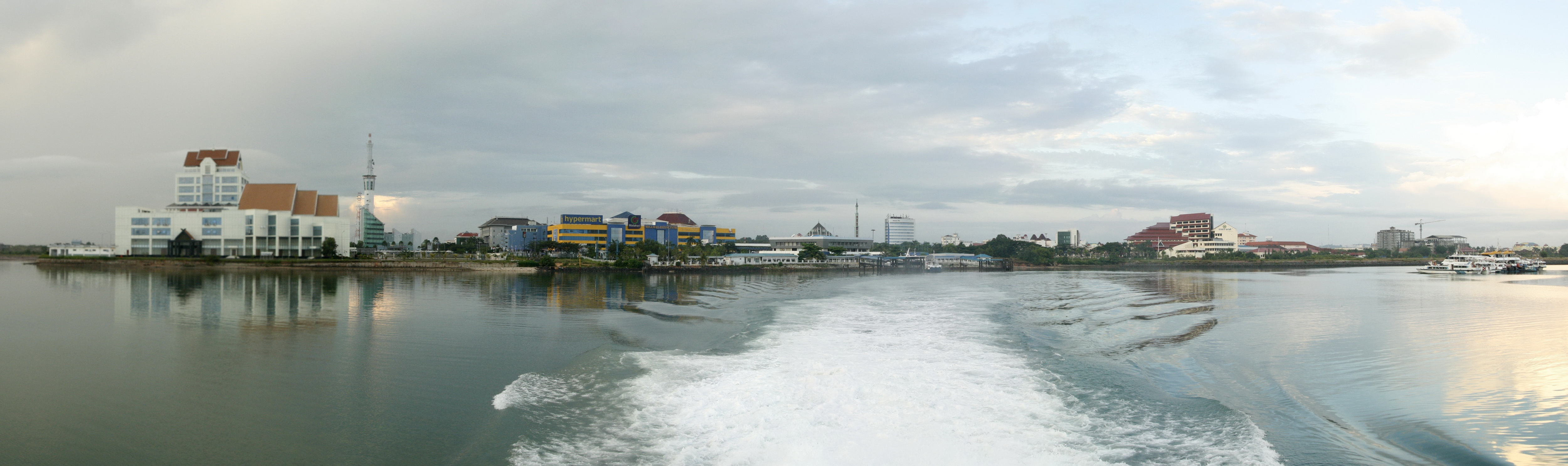 Panoramic view of Batam Center Harbour (taken from the ferry)